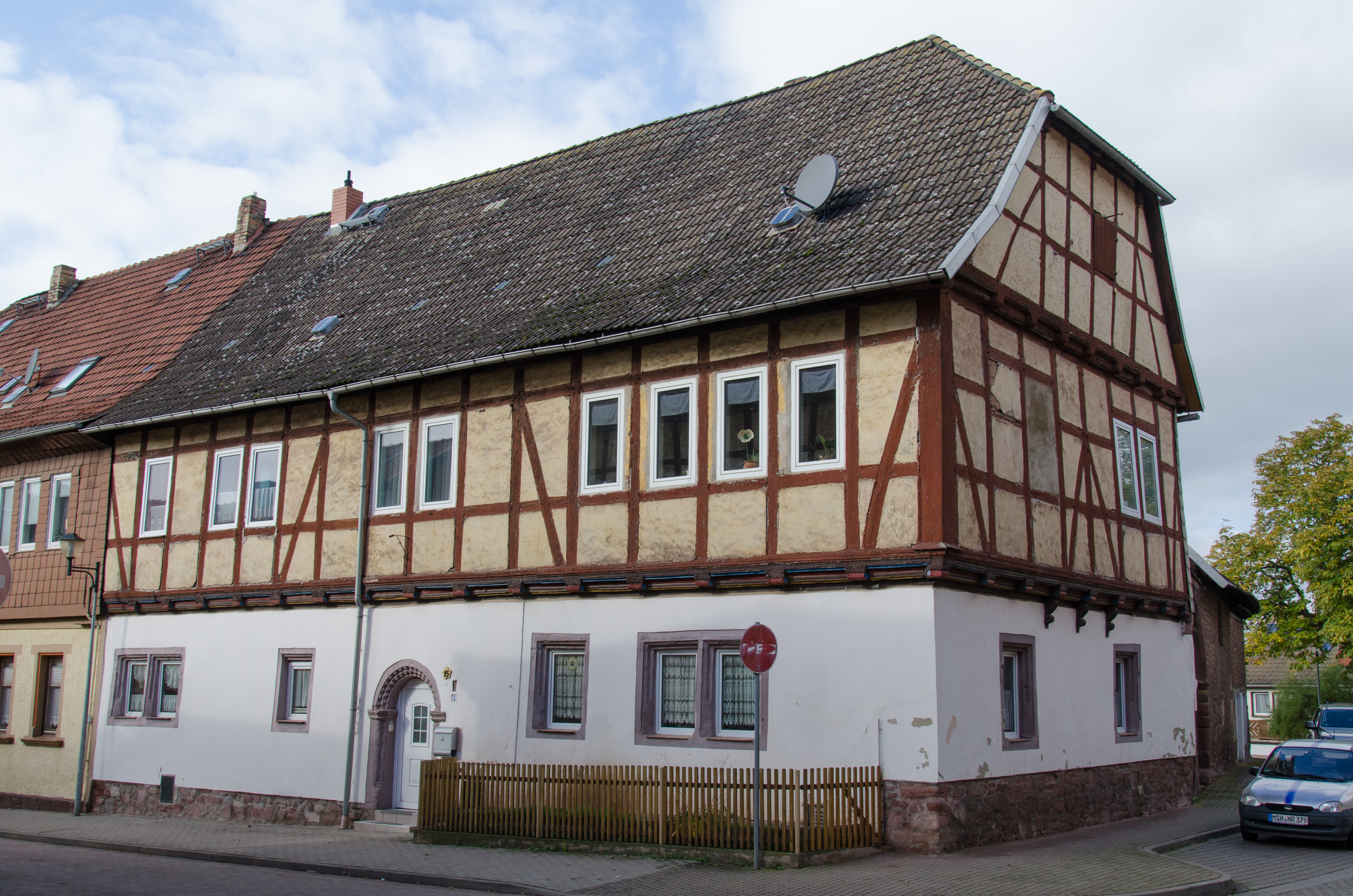 Kelbra, Thomas